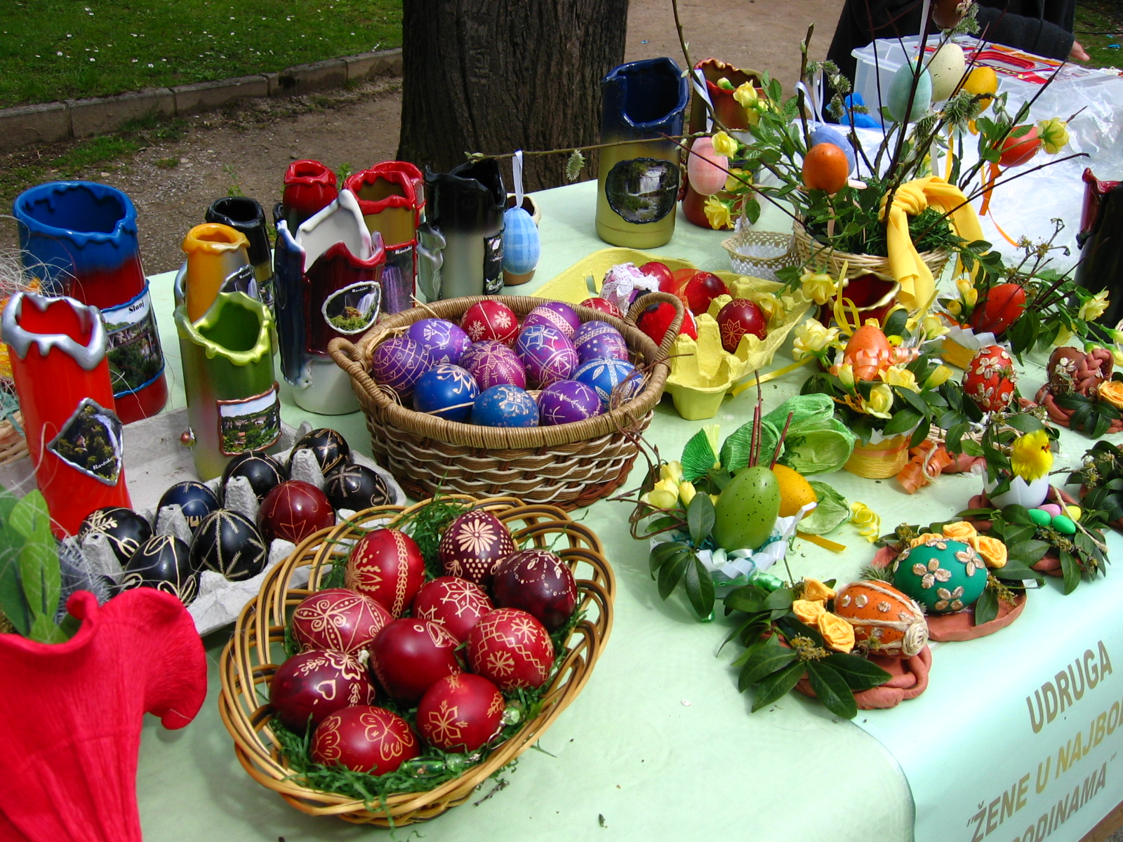 Traditional painted easter eggs in Croatia. Picture taken in April 2006. Slunj, Croatia.